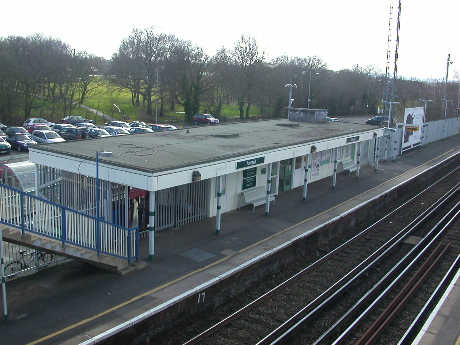 Down platform building at Ashtead station. Photographed on 17th March 2007.